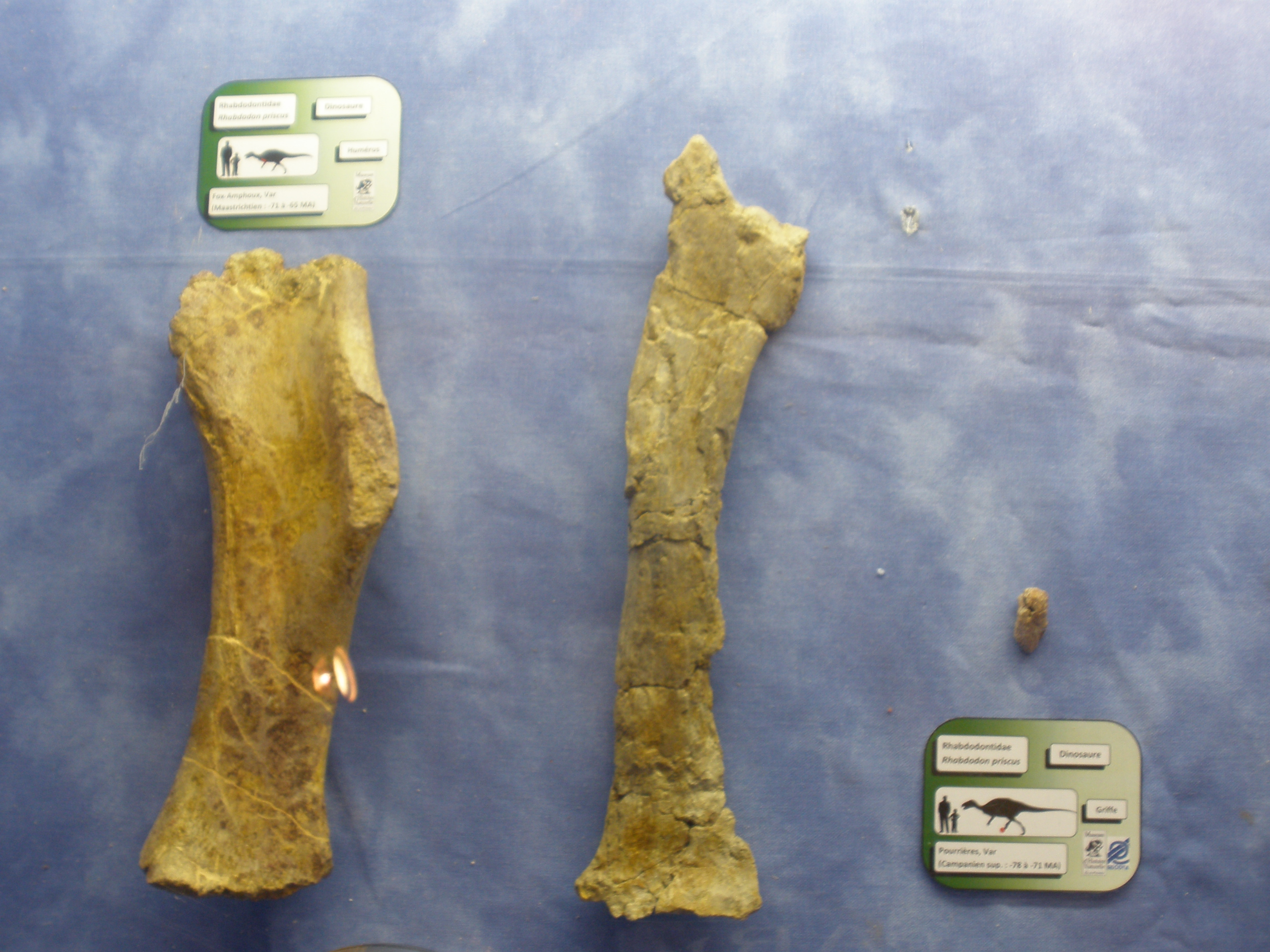 fossil leg bones of Rhabdodon, an extinct ornithopod